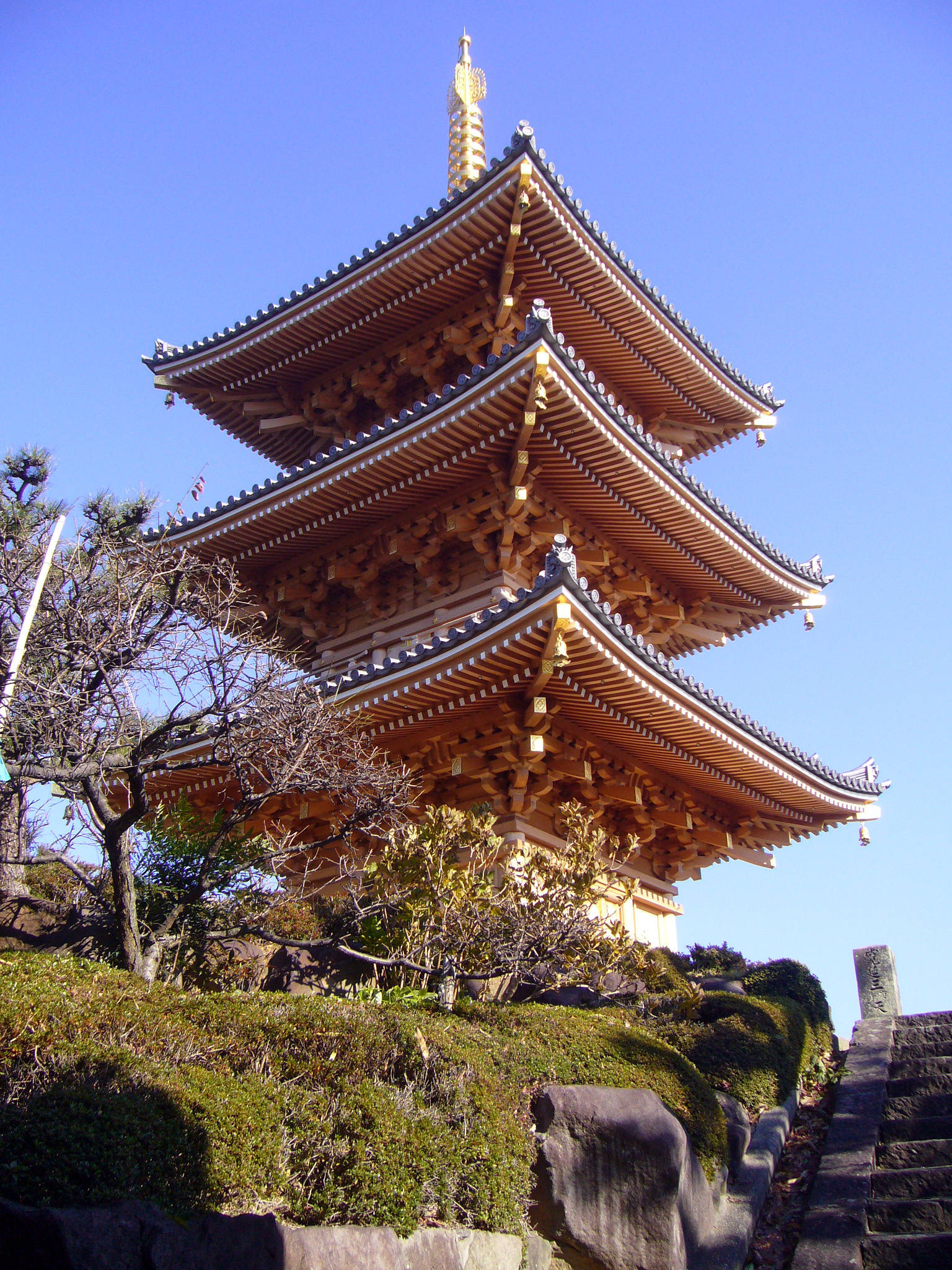 Chokei-ji in Sennan, Osaka prefecture, Japan